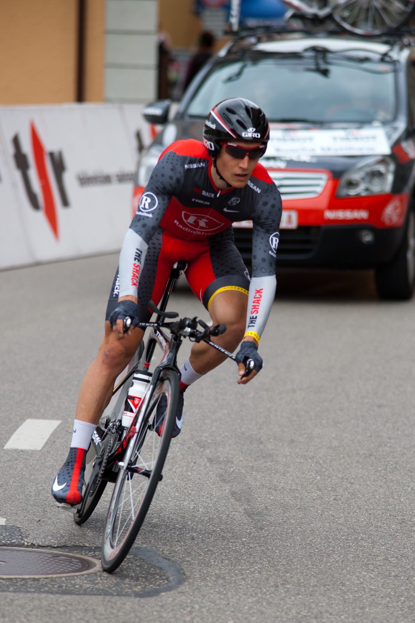 Matthew Busche during the 3rd stage of the Tour de Romandie 2010.